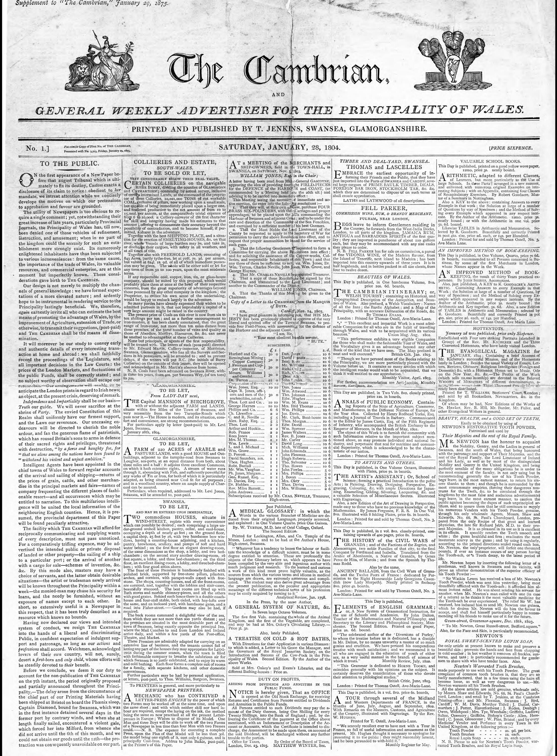 Front page of the earliest surviving copy of the Welsh newspaper The Cambrian